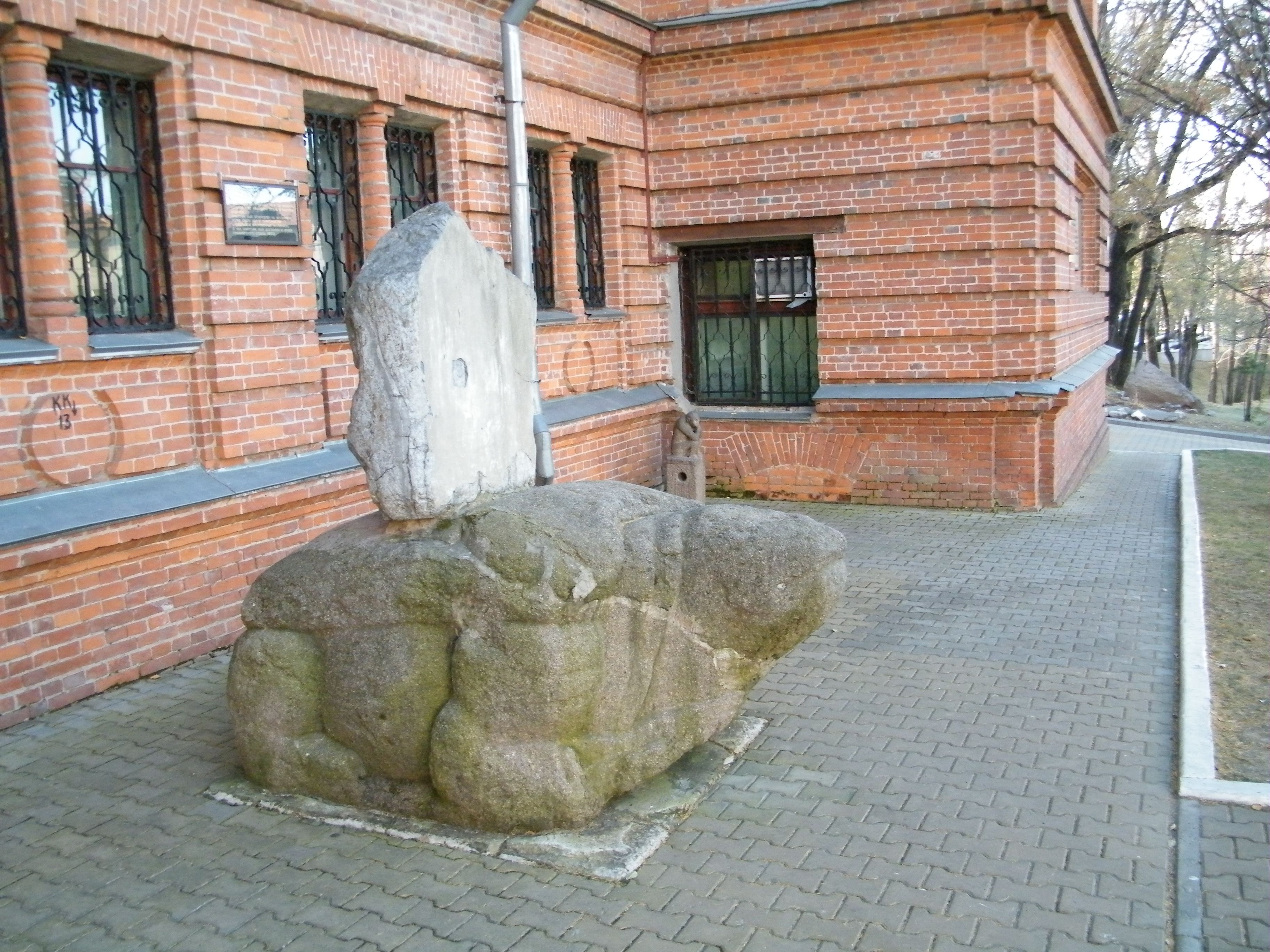 Khabarovsk Krai Local Museum